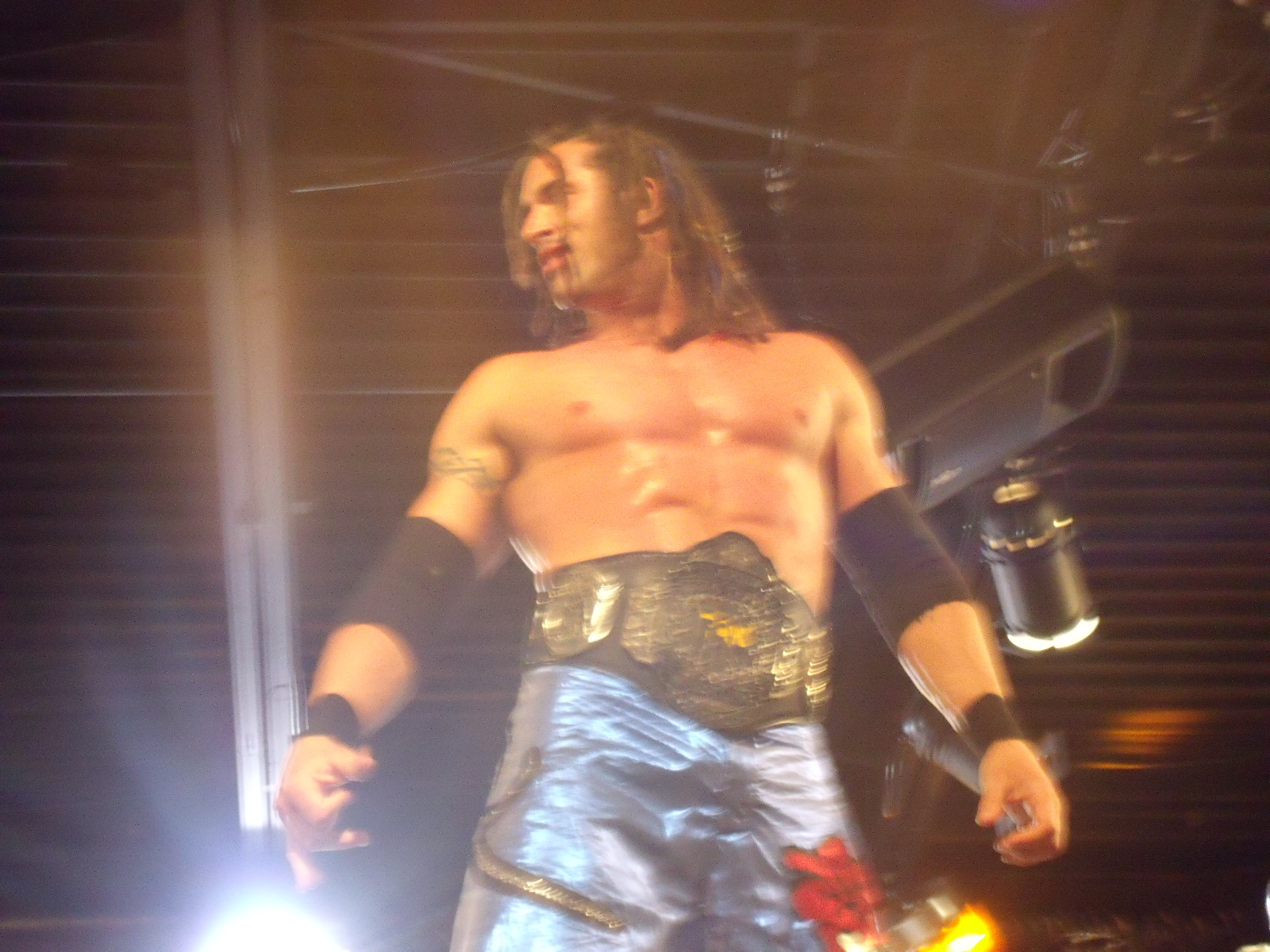 Tyler Reks was the champion with Johnny Curtis.